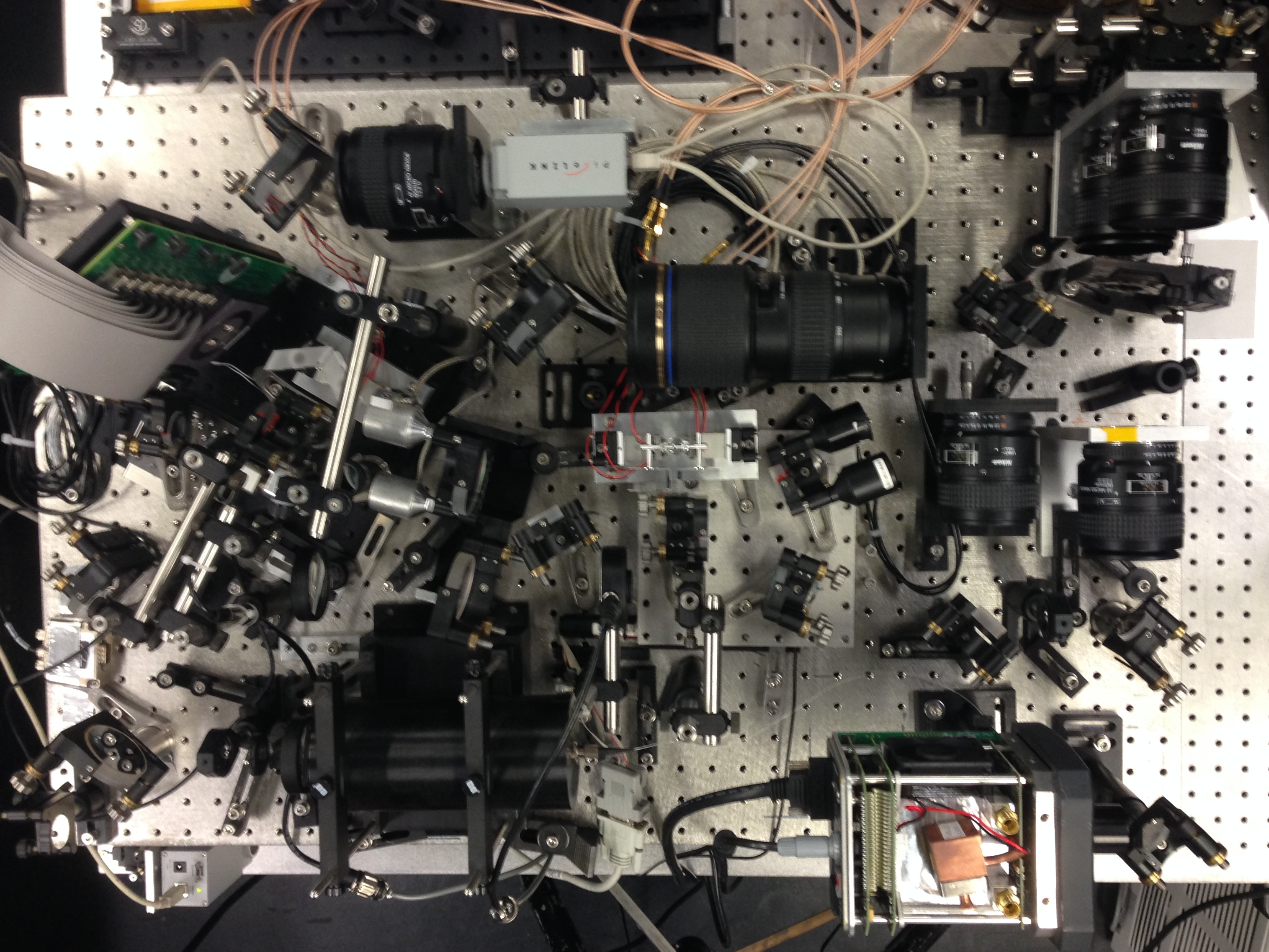 The Visible Nulling Coronagraph (VNC) at NASA Goddard Space Flight Center. The system includes a deformable mirror and several active optical elements. There are two detectors, both are used to control the deformable mirror, and one is used for the high-contrast detection.